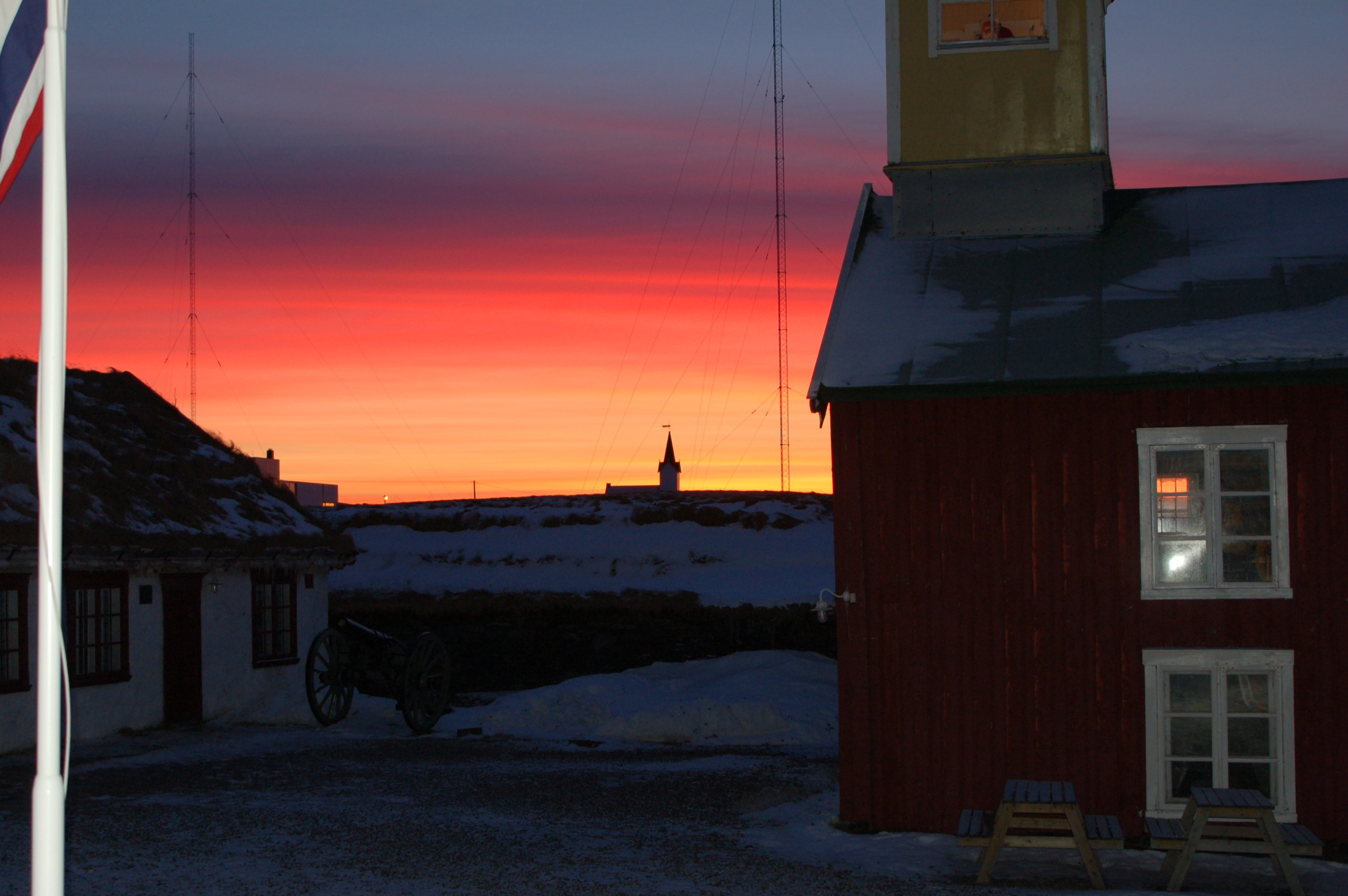 Waiting for the sun